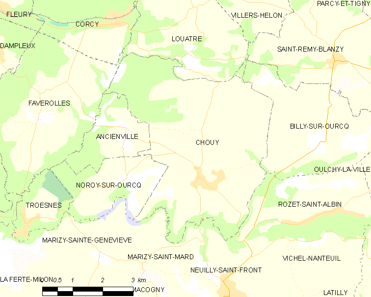 Map of French commune: Chouy Map commune FR insee code 02192.png